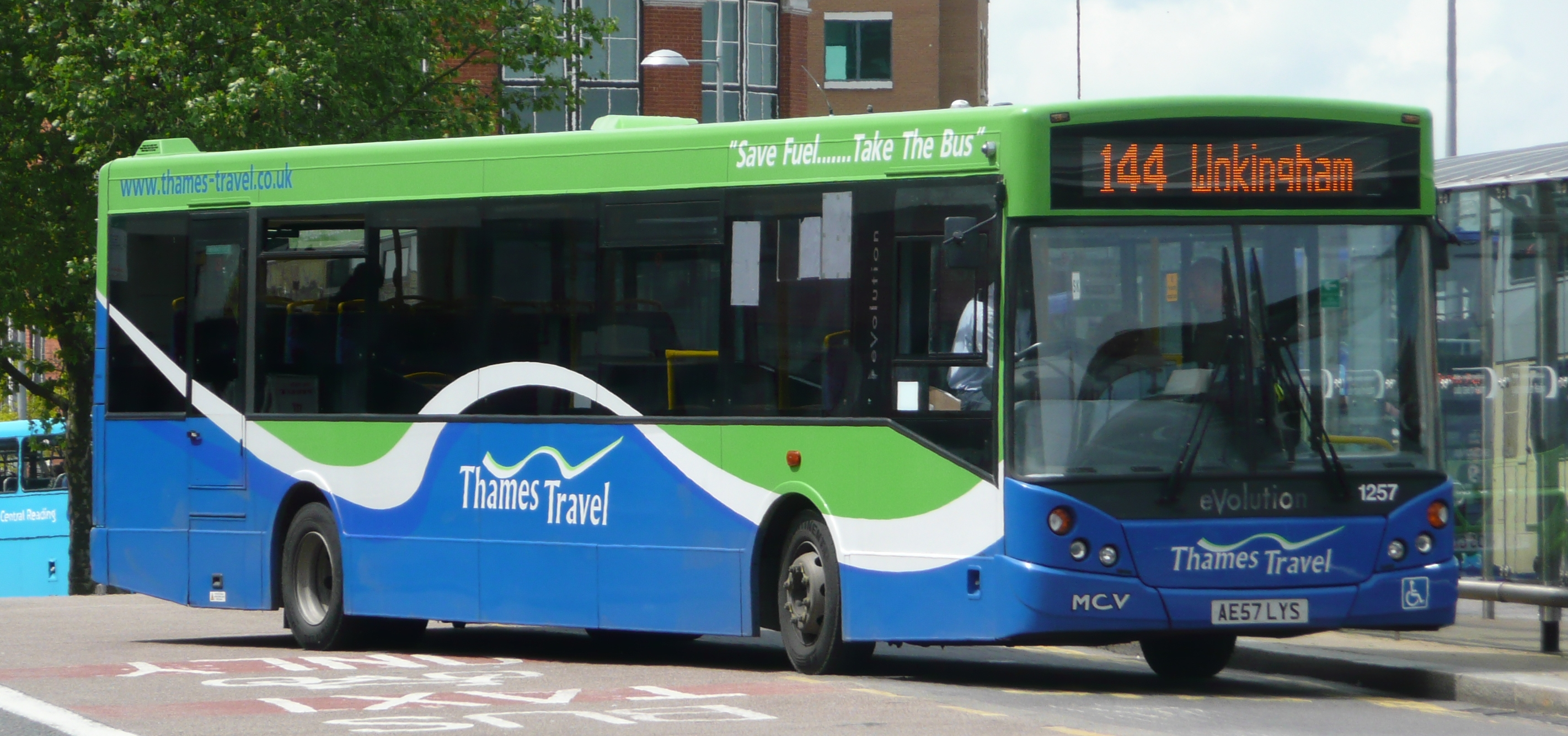 A Thames Travel bus on route 144 in Reading, Berkshire. It is an MAN 14.220 (A66) with an MCV Evolution body, fleet number 1257, registration mark AE57 LYS.